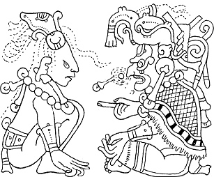 Detail of the page 9 of the Dresden Codex (as drawn by William E. Gates), showing a conversation about the creation of human life between a divinity of maize (on the left) and Itzamná (on the right), according to Ferreira 2006, p.30.